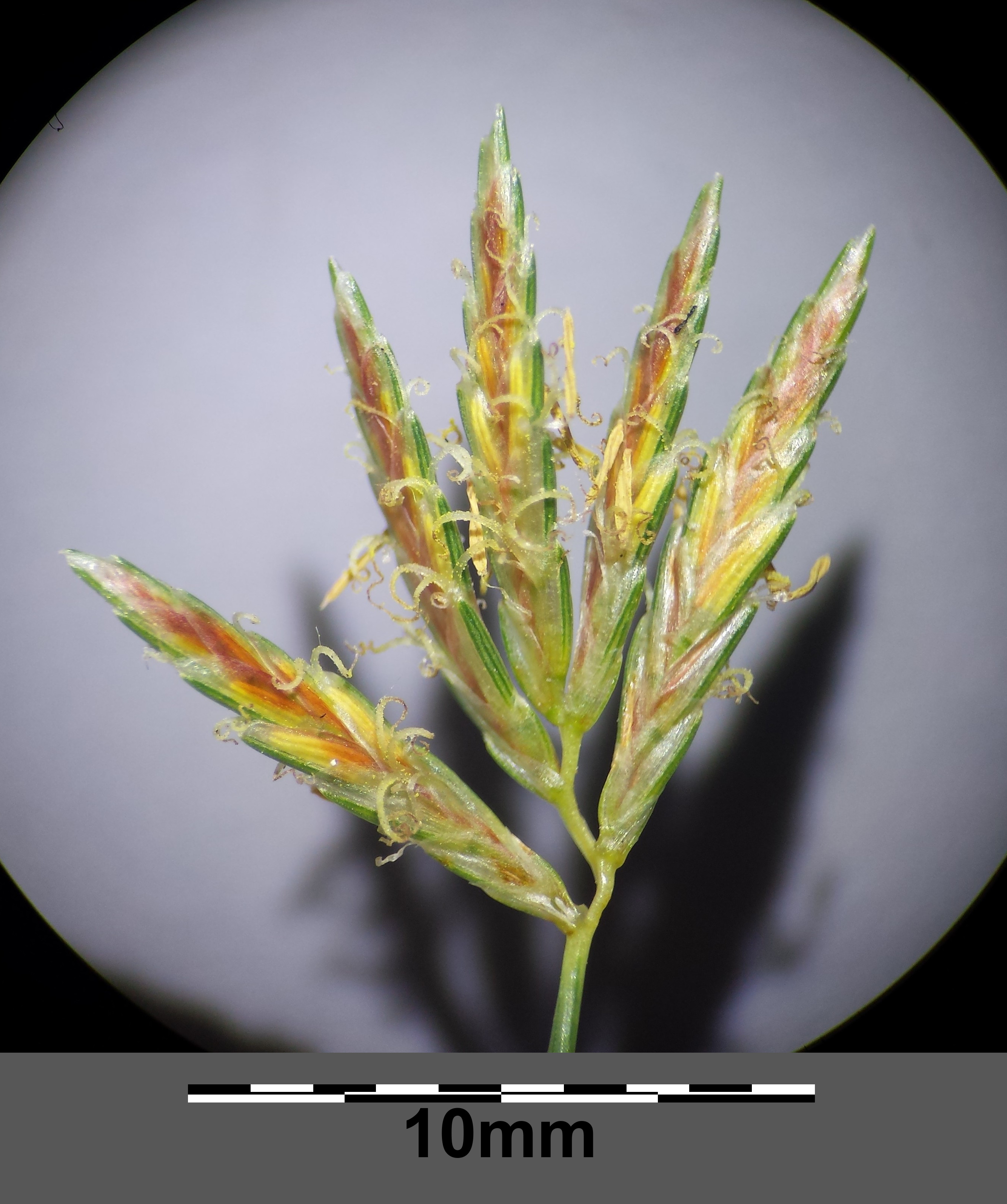 Spikelets Taxonym: Cyperus longus subsp. longus ss Fischer et al. EfÖLS 2008 ISBN 978-3-85474-187-9 Location: Josef-Ruston-Gasse in Jedlesee, Vienna-Floridsdorf - ca. 160 m a.s.l. Habitat: wayside